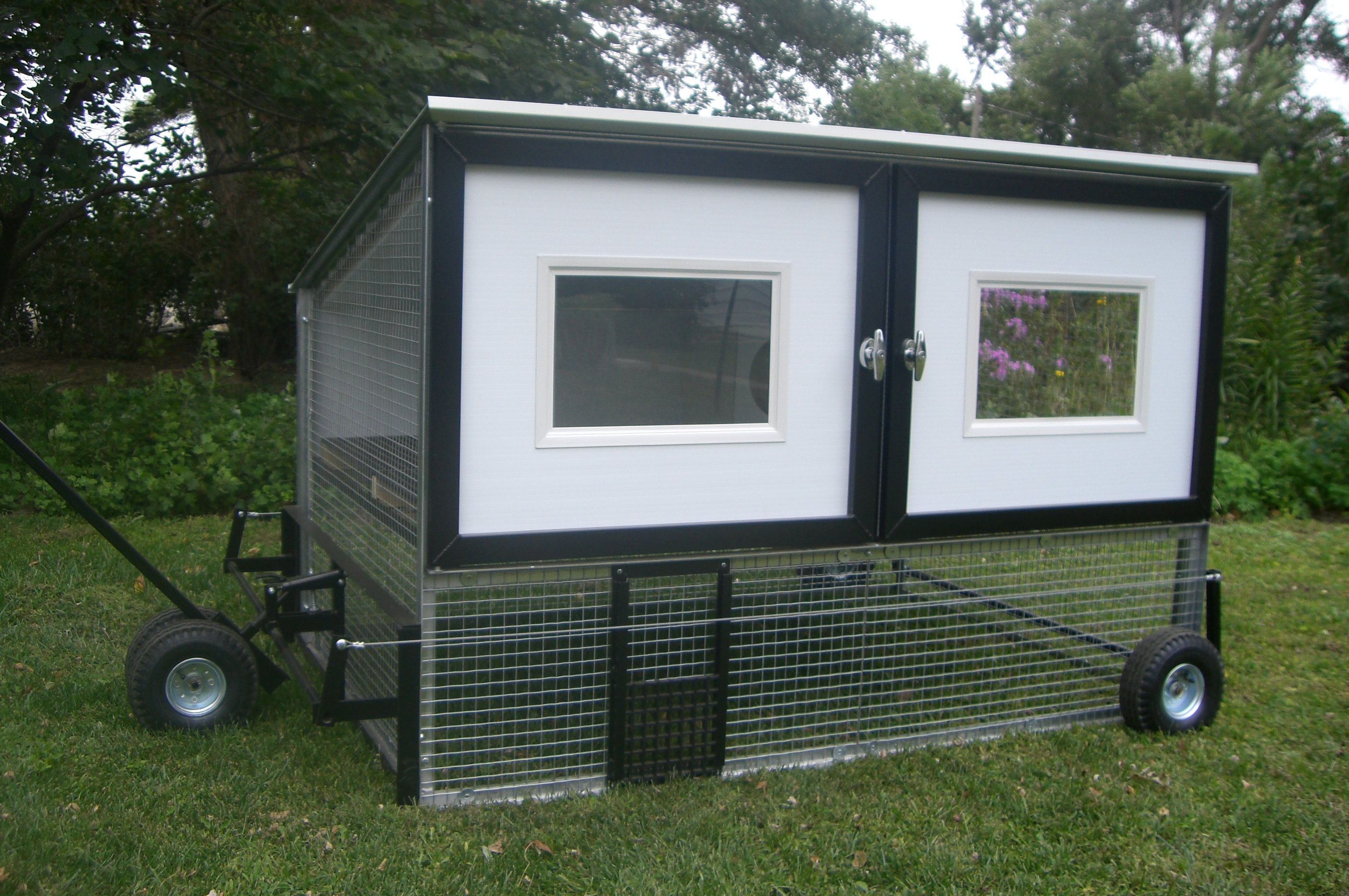 The Egg Cart'n is a 4' x 6' chicken tractor that holds 8-12 chickens. It stands alone in its ease of use and its high quality, durable metal construction. It has an upstairs where the chickens can roost and lay eggs and a downstairs where the chickens can enjoy fresh, green pasture.